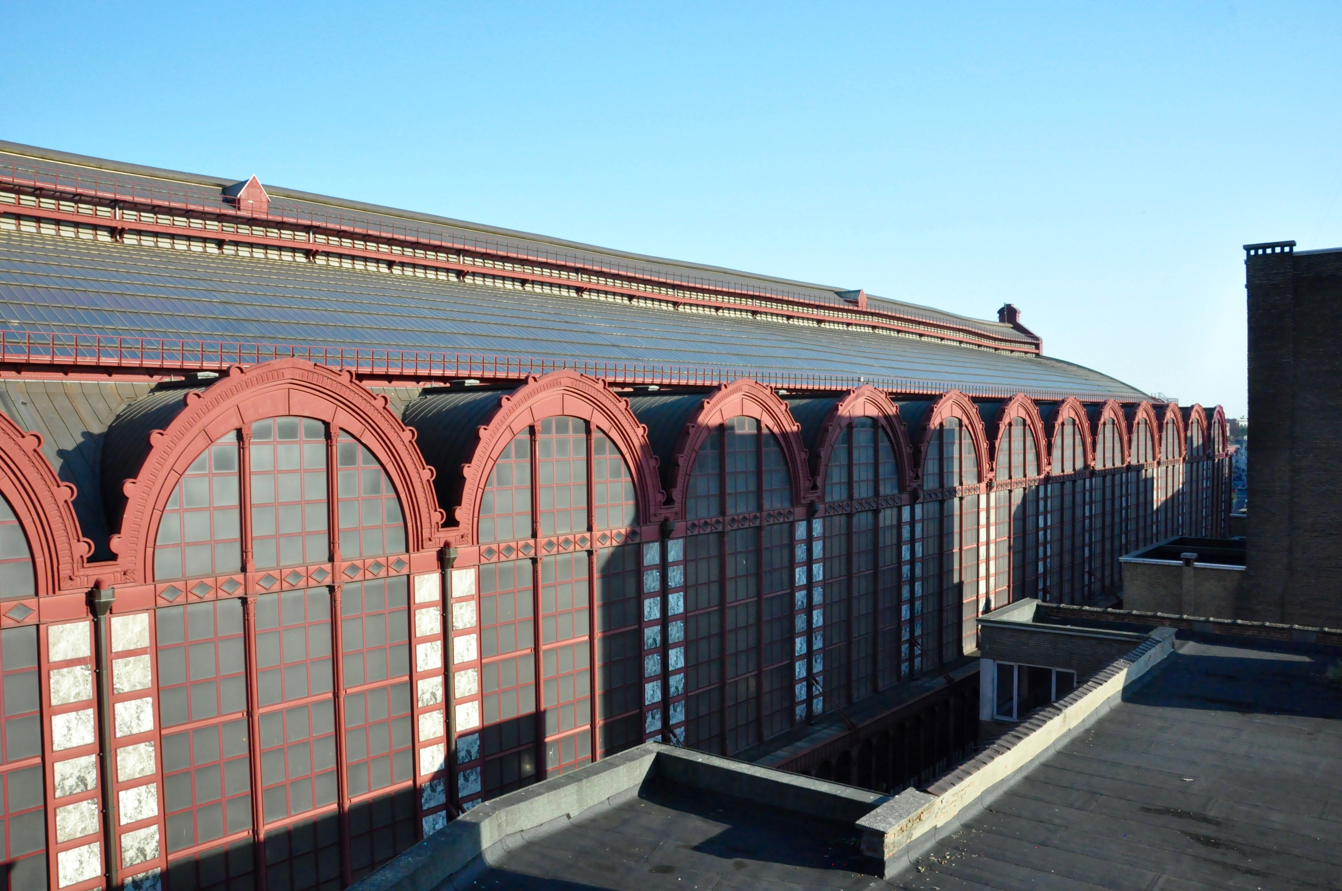 Visible wave-distortion in the roof of the train hall of the Antwerp Central Station (Antwerpen-Centraal), as seen from the roof of an adjacent building in the Pelikaanstraat (near the corner with De Keyserlei) on 13 September 2016. The warping of the structure can be seen at the far top-right end of the roof here.